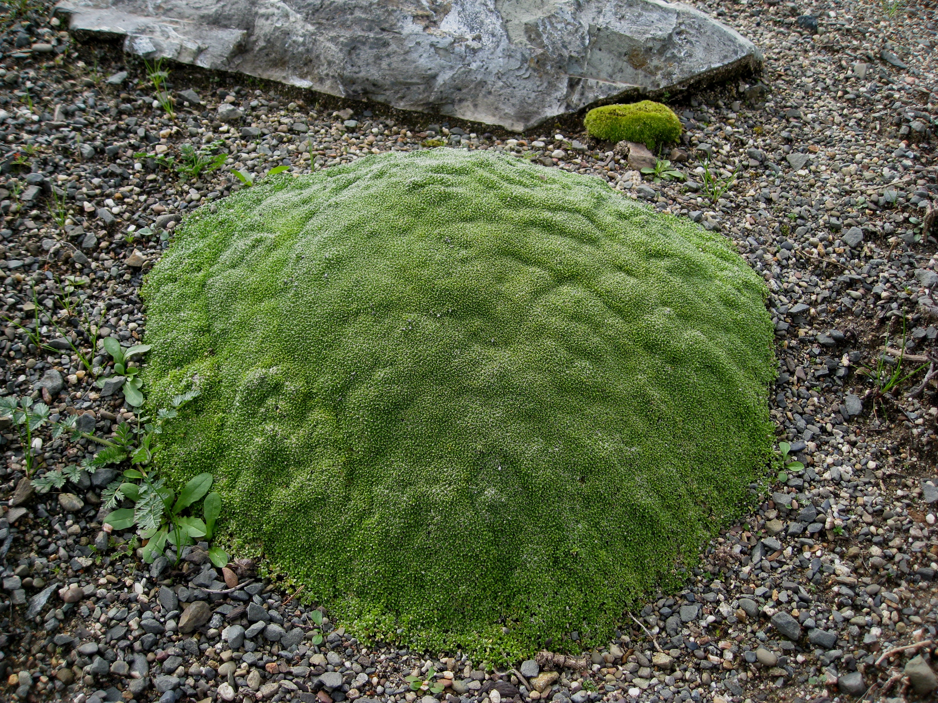 This was the first rock garden we visited on the NARGS 2010 winter study weekend. It is owned by a very knowledgeable rock gardener in the vicinity of Glendale, Oregon seawt10 059